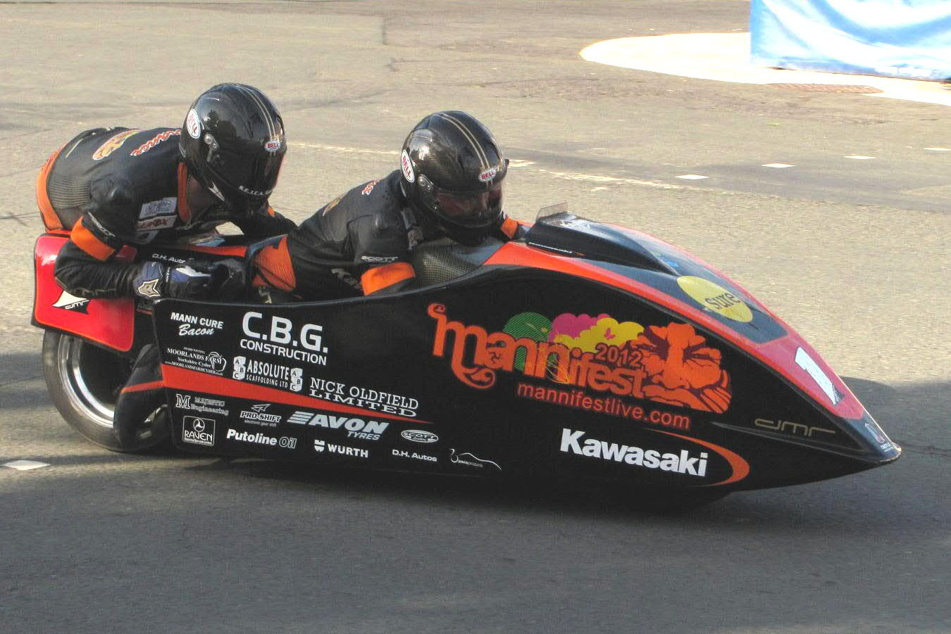 Isle of Man TT Races Date : 31st May 2012 - Thursday Evening Practice Dave Molyneux/Patrick Farrance DMR 600cc Parliament Square, Ramsey